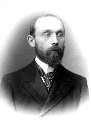 A portrait of Paul Dupuy, a history professor of École normale supérieure, who wrote detailed biography of French mathematician Évariste Galois for the first time.